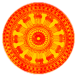 keyword: buddhism icon symbol